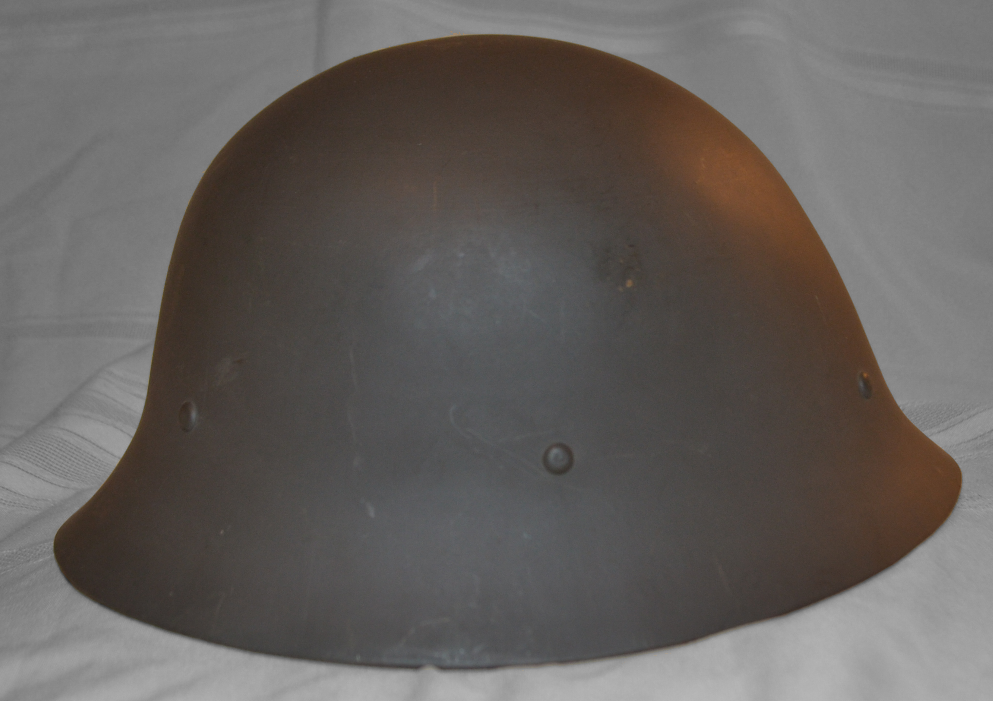 M26 Helmet